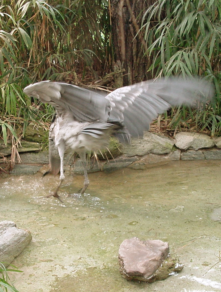 Balaeniceps rex, Zoological Garden, Frankfurt/Main, Germany